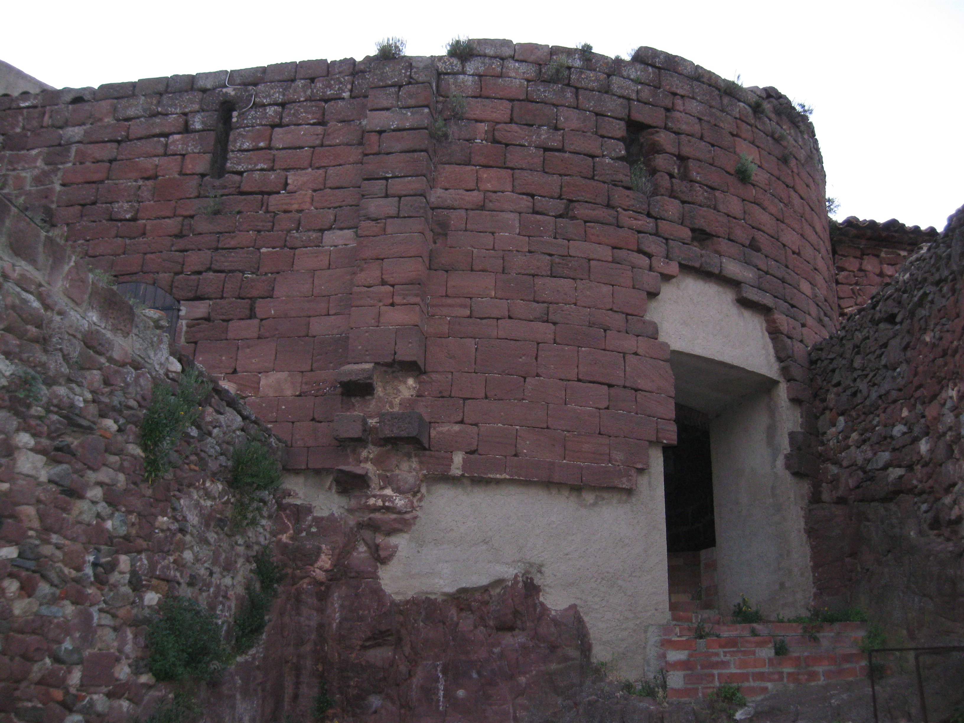 Castle of Prades in Catalonia